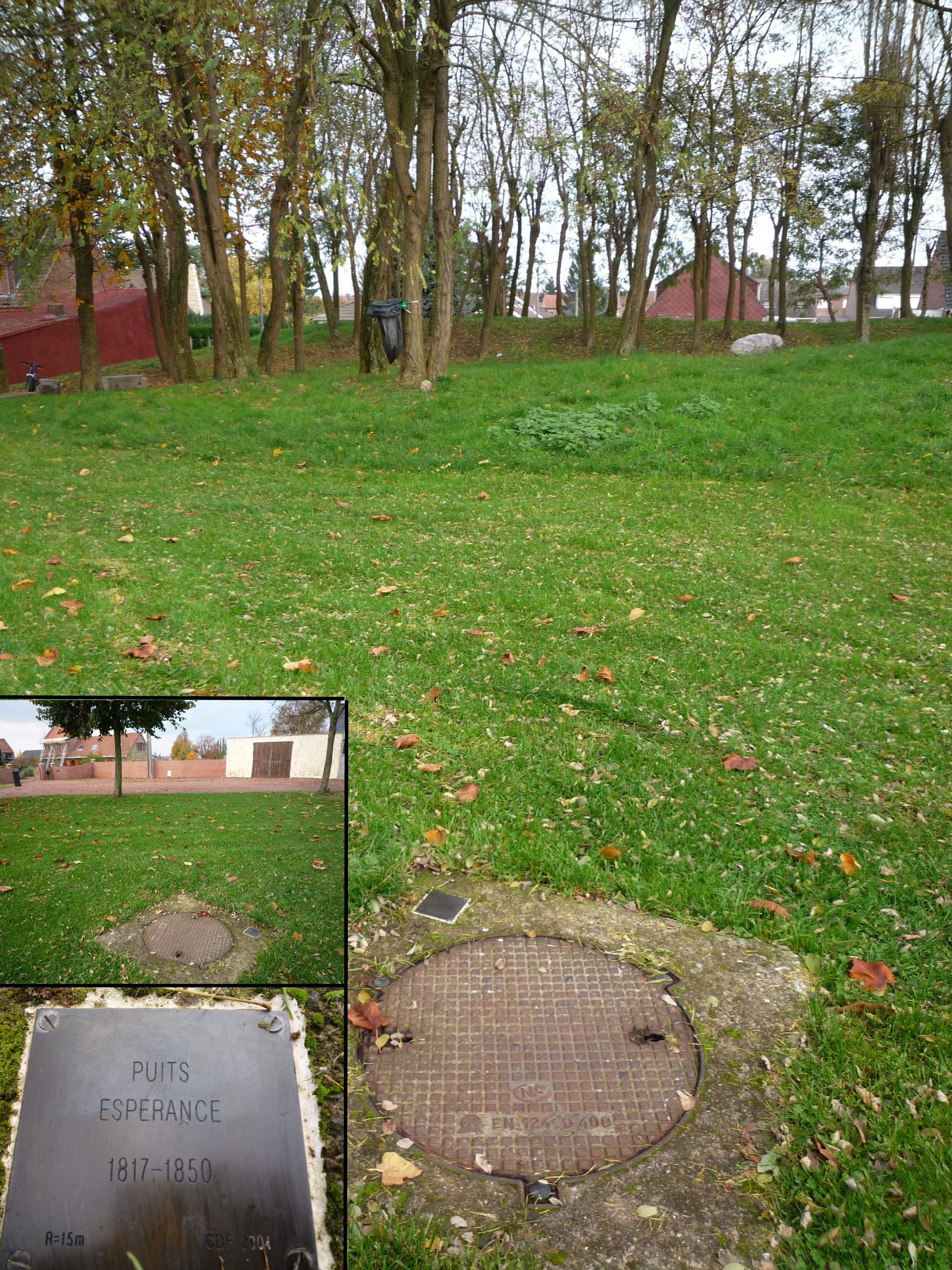 Pit of the Compagnie des mines d'Aniche, France.